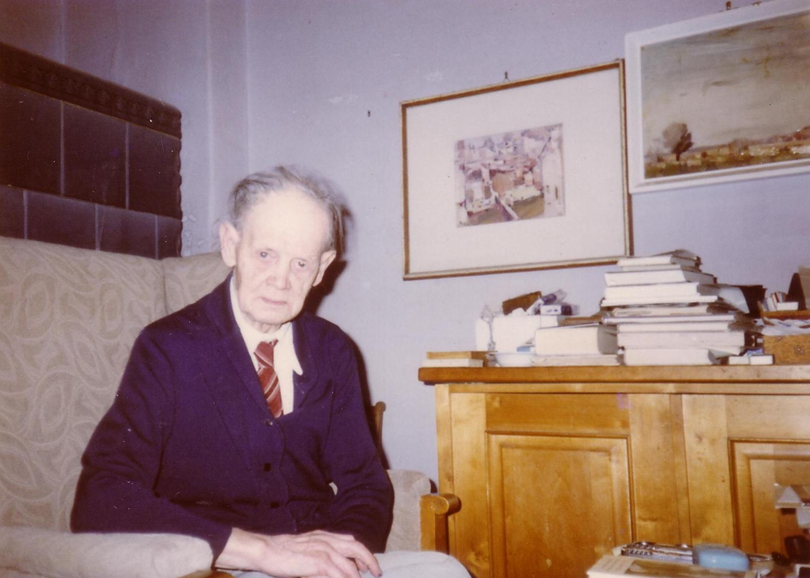 Hans Eichmann, in his living room. He is 96 years old.